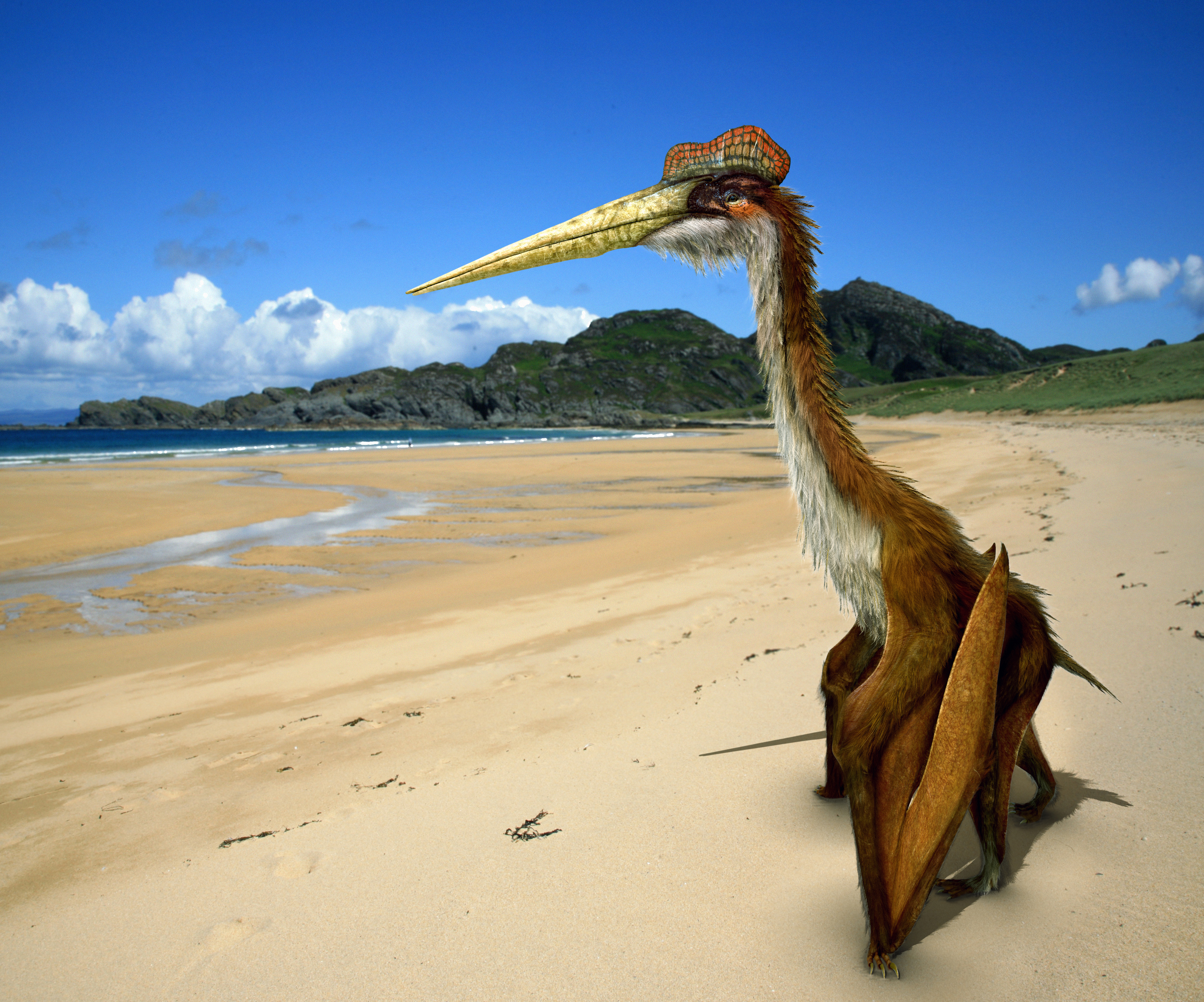 Life restoration of Quetzalcoatlus